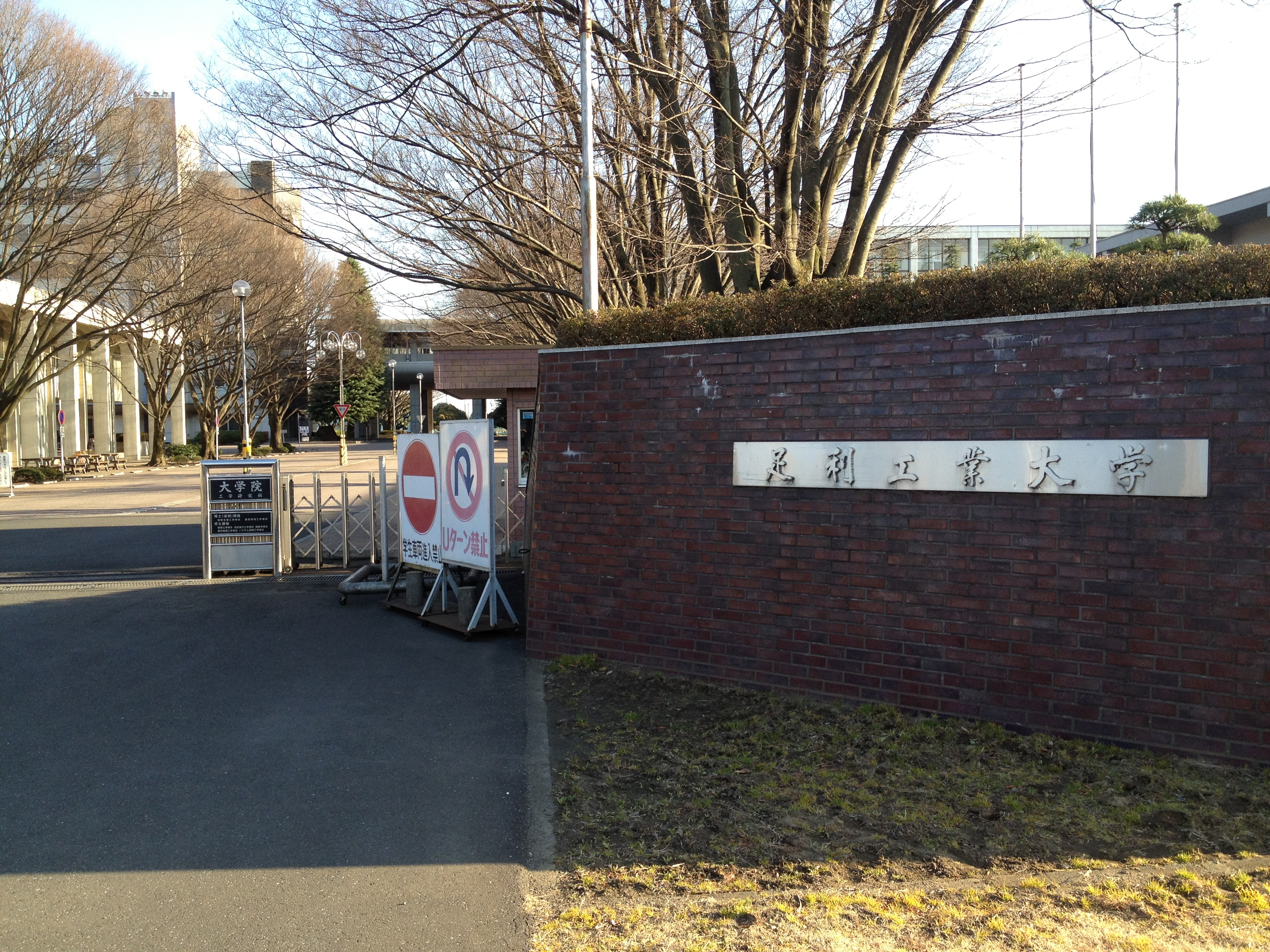 Main gate of Ashikaga Institute of Technology, Tochigi prefecture, Japan.